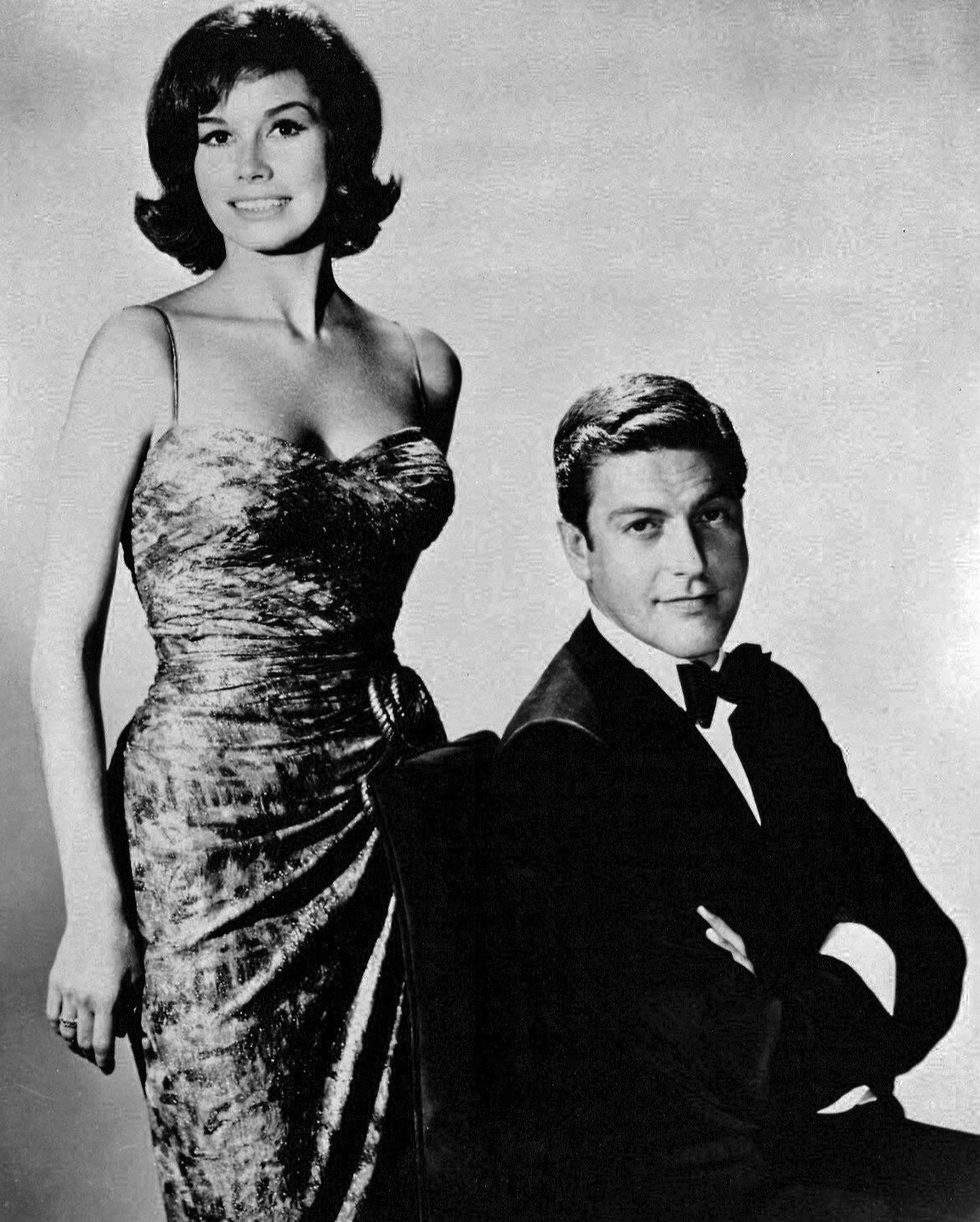 Promotional photo of Mary Tyler Moore and Dick Van Dyke from The Dick Van Dyke Show.